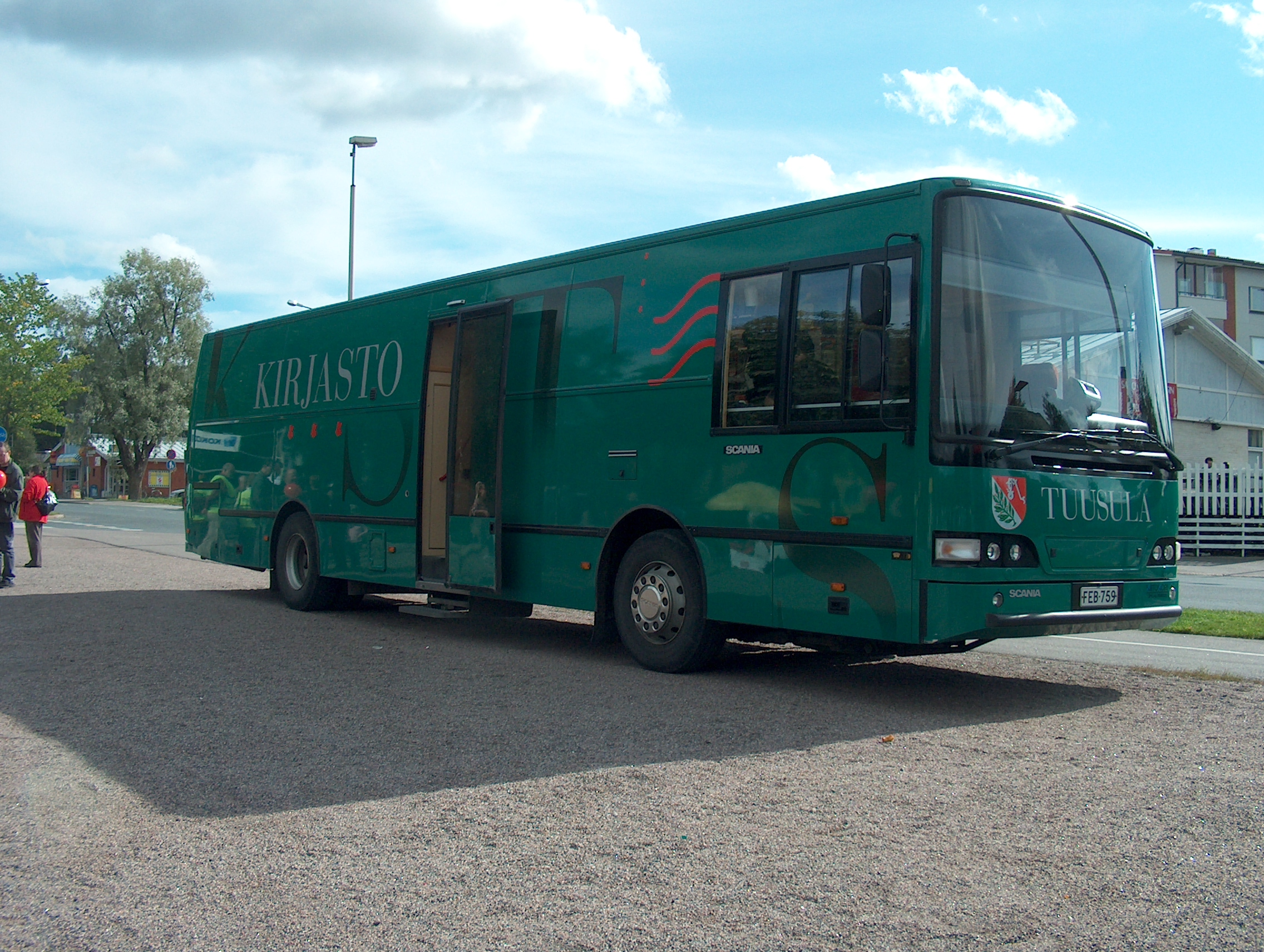 Library bus in Tuusula, Finland. Scania / Kiitokori